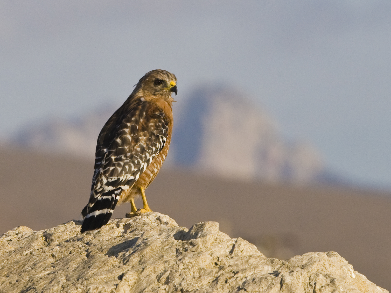 Red-shouldered Hawk (bird) (Buteo lineatus) in the Cloisters City Park in Morro Bay, CA - Hollister Peak is shown in the background.